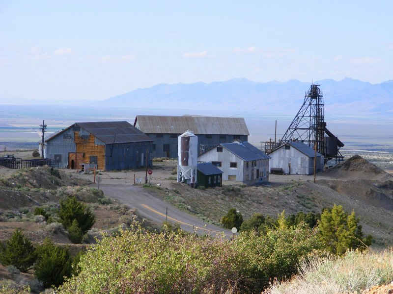 Richmond Mine in Eureka, Nevada — with northerly view of the Diamond Valley and west flank of the Diamond Mountains. Lead and silver ore were discovered at Eureka in 1864. The two major producers were the Richmond Consolidated Mining Company and the Eureka Consolidated Mining Company. They peaked during 1879-1883, with most mines closed by 1891.